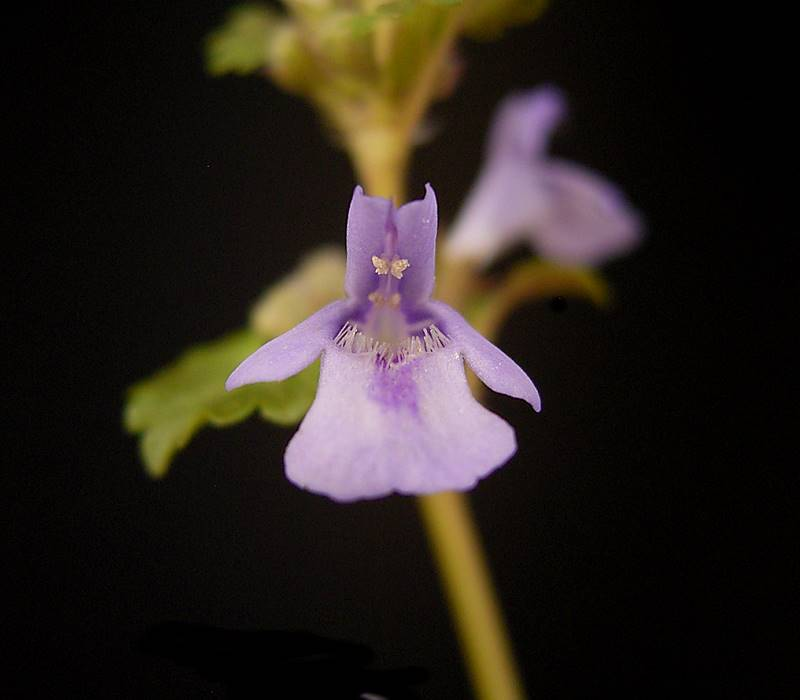 Glechoma hederacea